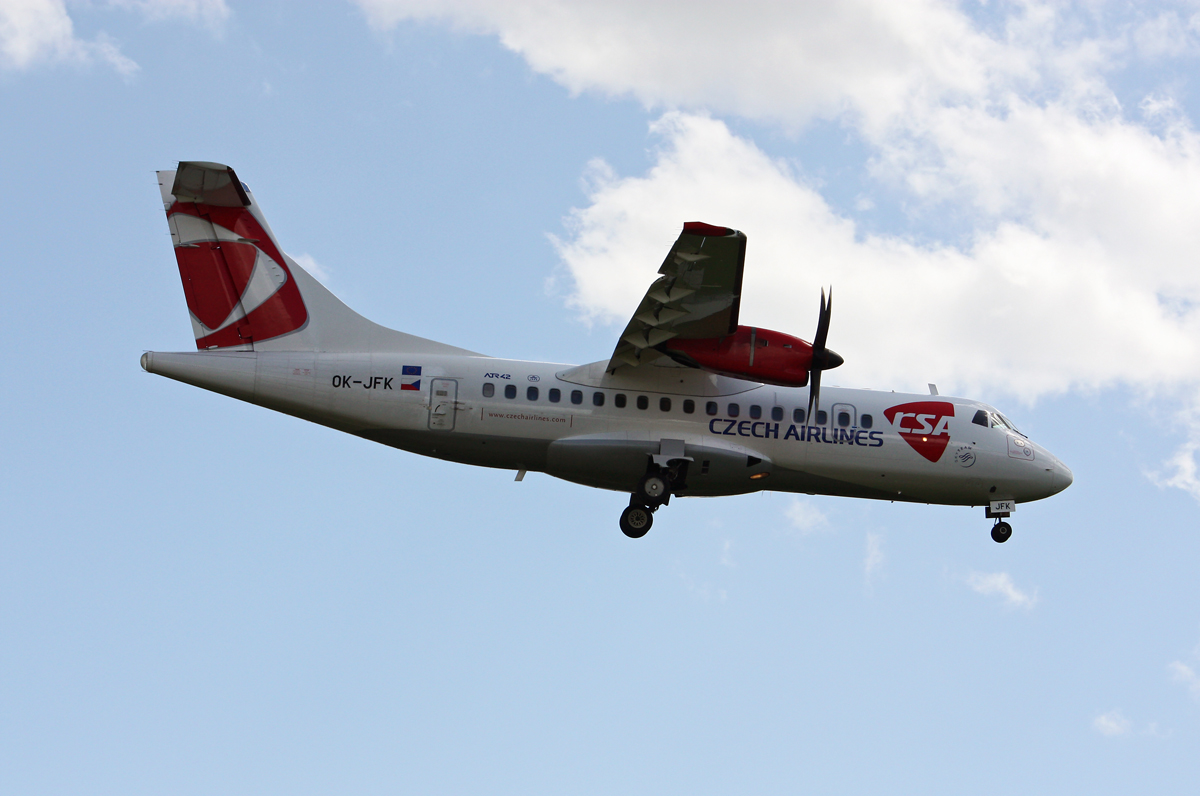 Coming into land on Rwy 23 Zagreb Airport. ATR 42 OK-JFK.